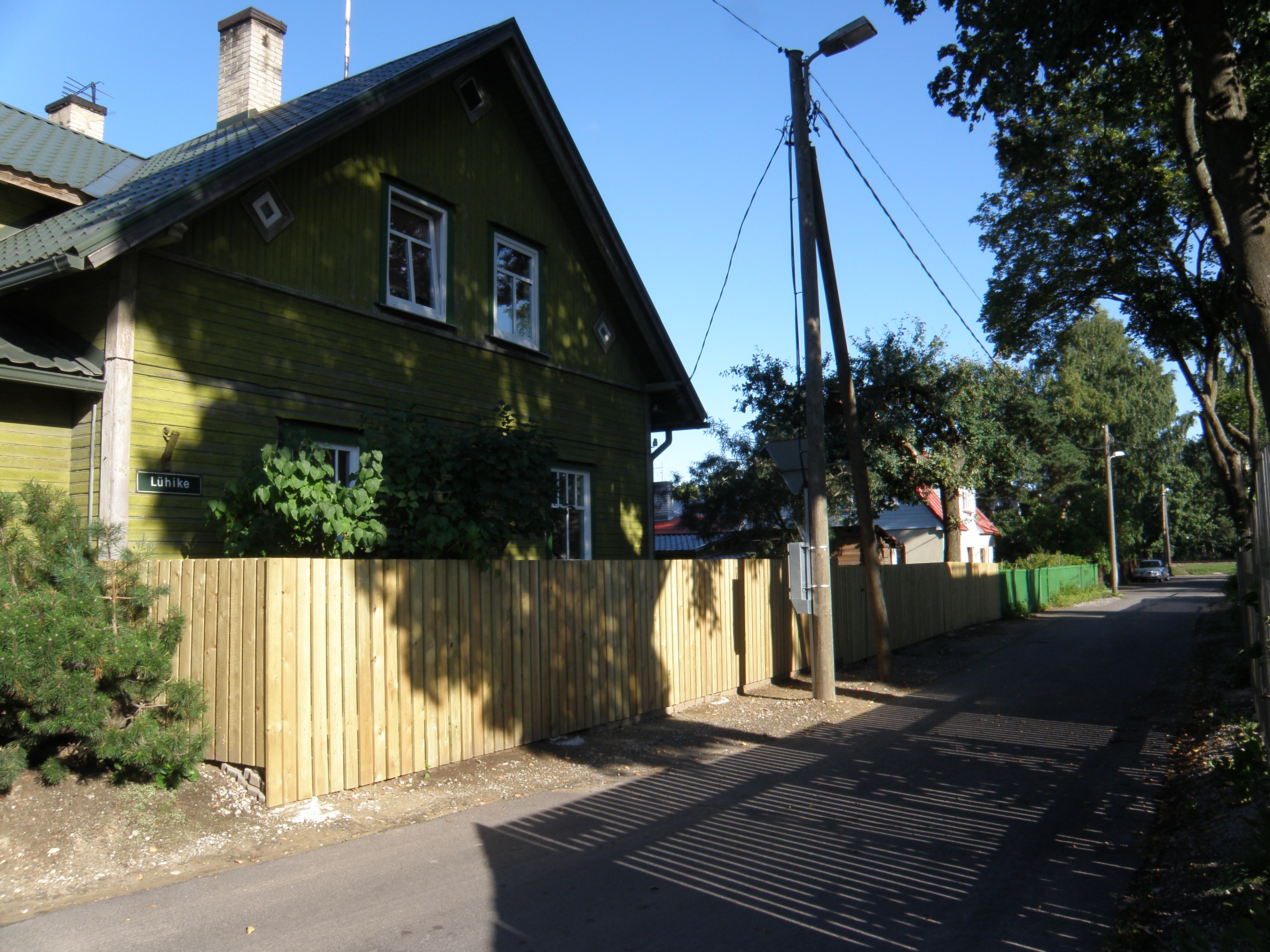 Lühike Street in Tallinn